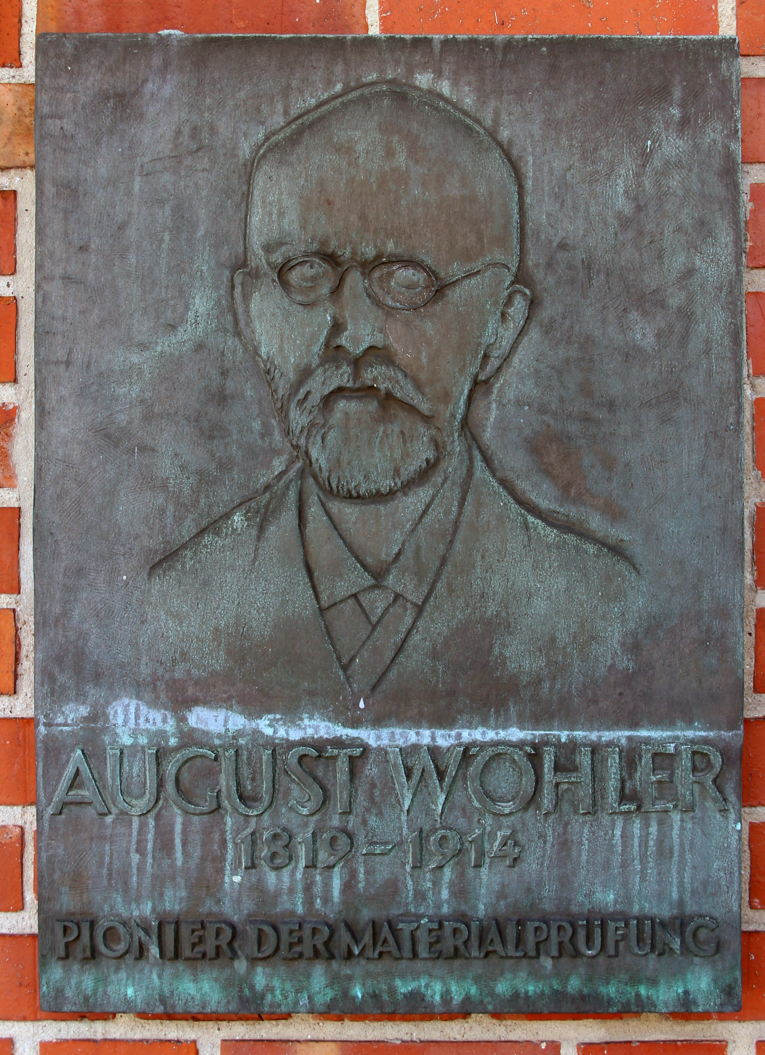 Memorial plaque, August Wöhler, Unter den Eichen 87, Berlin-Lichterfelde, Germany